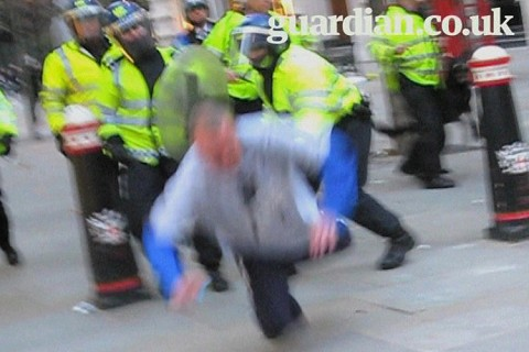 A still from video footage obtained by The Guardian showing what appears to be a police assault of Ian Tomlinson on April 1, 2009.